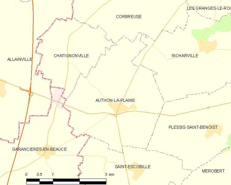 Map of French municipality Authon-la-Plaine